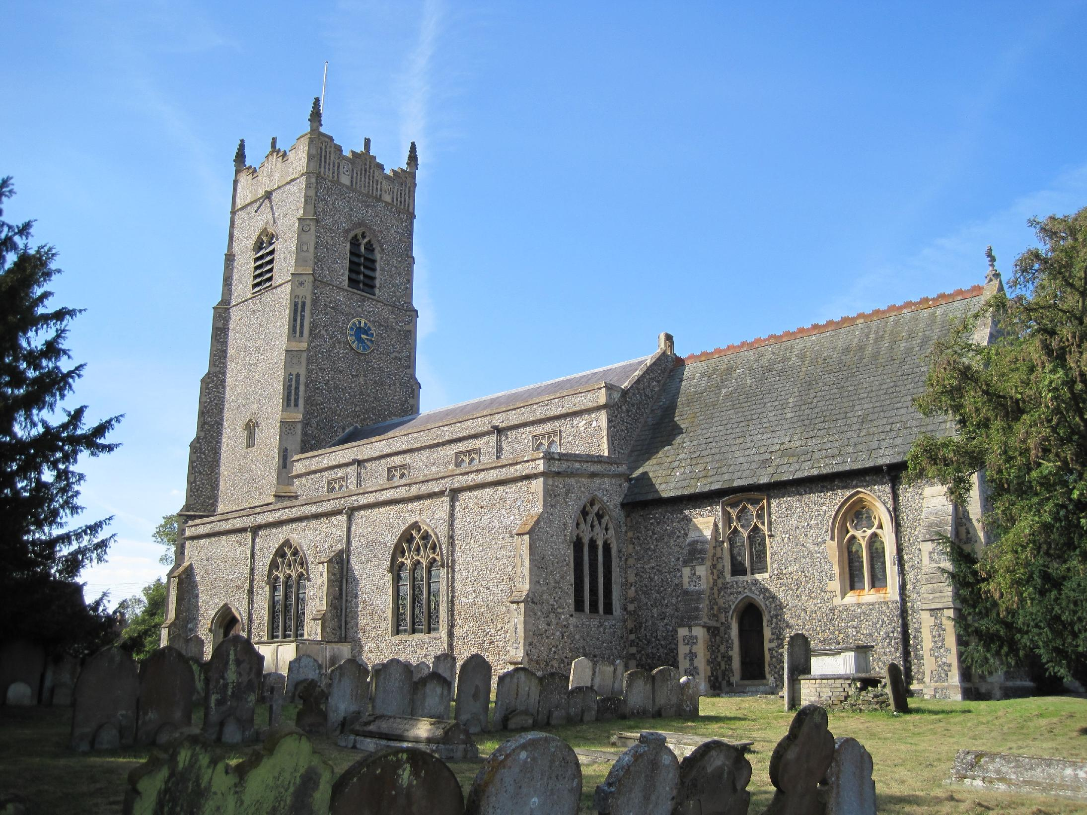 Parish church of St John the Baptist, Garboldisham, Norfolk, seen from the southeast